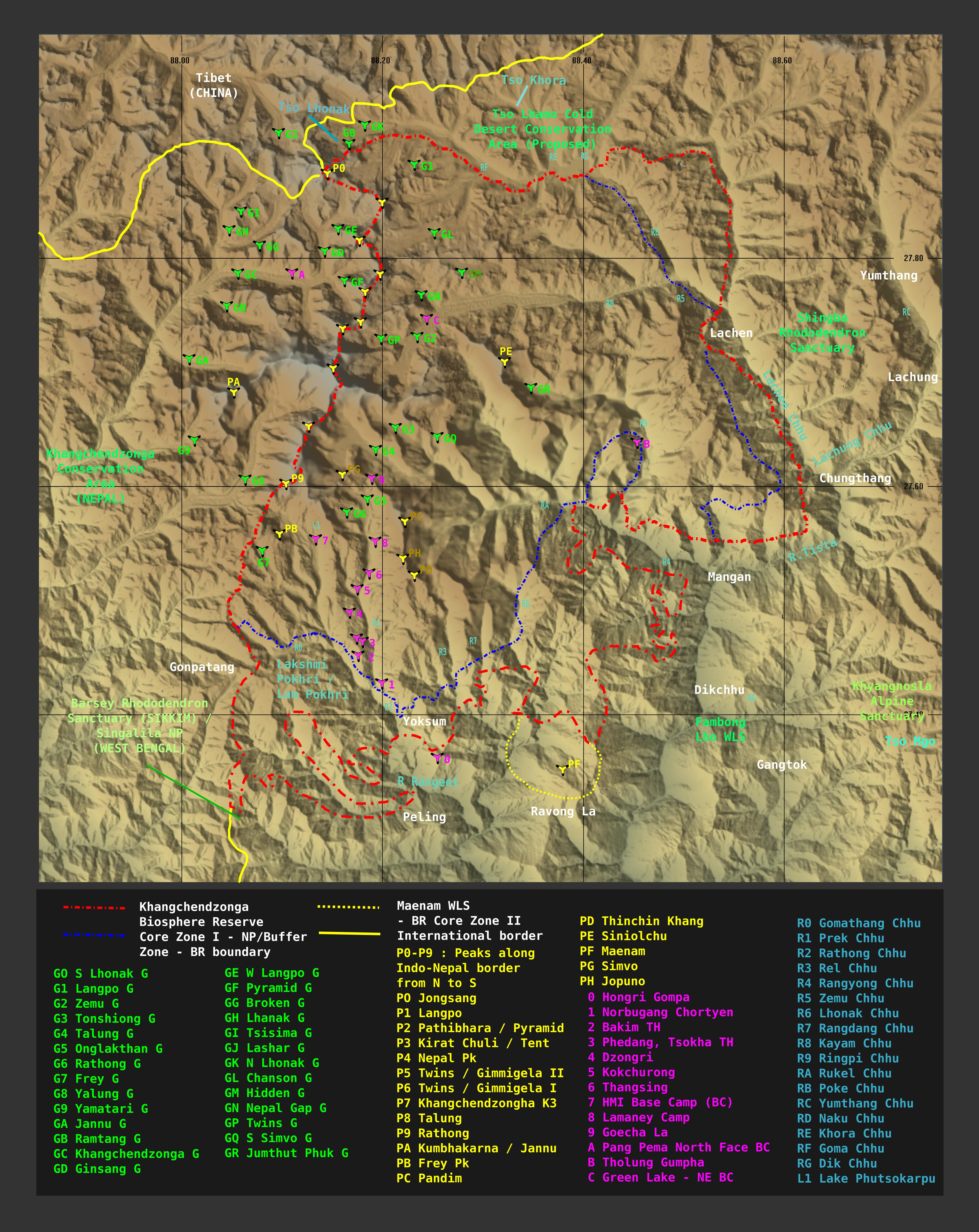 Contour generated by software from free SRTM data